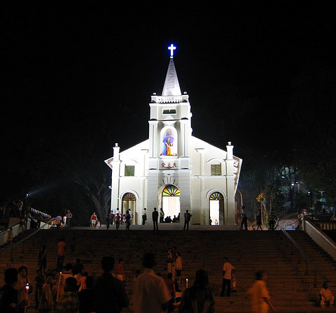 St Anne's Roman Catholic Church in Bukit Mertajam, Malaysia.